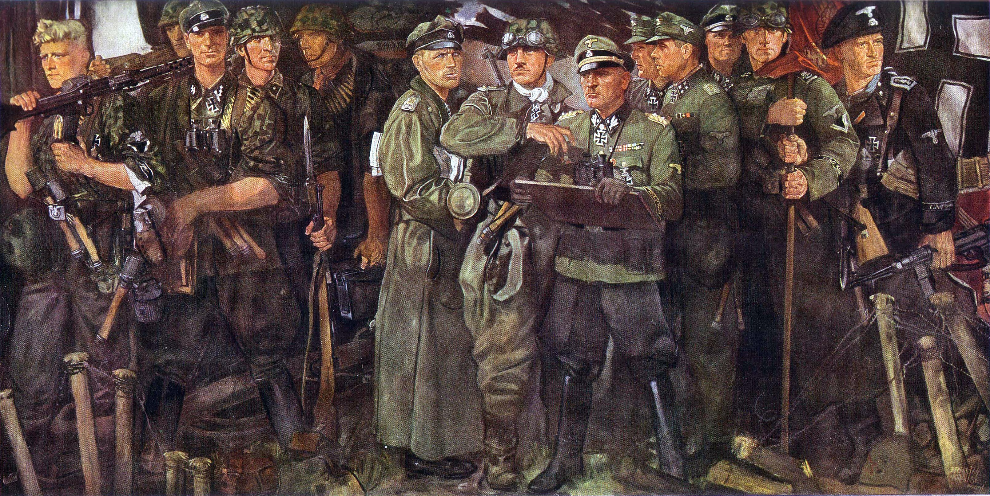 A picture of Leibstandarte Adolf Hitler with members of the Knight's Cross of the Iron Cross First Class: Gerd Pleiss, Kurt Meyer, Gerd Bremer, Josef Dietrich, Theodor Wisch, Fritz Witt, Heinrich Springer and Otto Skorzeny. Financed by foreign loans, in which export contracts had to be ended unconditionally and preferably an army was built up. These trade agreements were concluded and honored with bonuses for the completion of short-sighted goals, which were hidden and have been made justified with ​​populistic propaganda. This created huge, radical dimension.